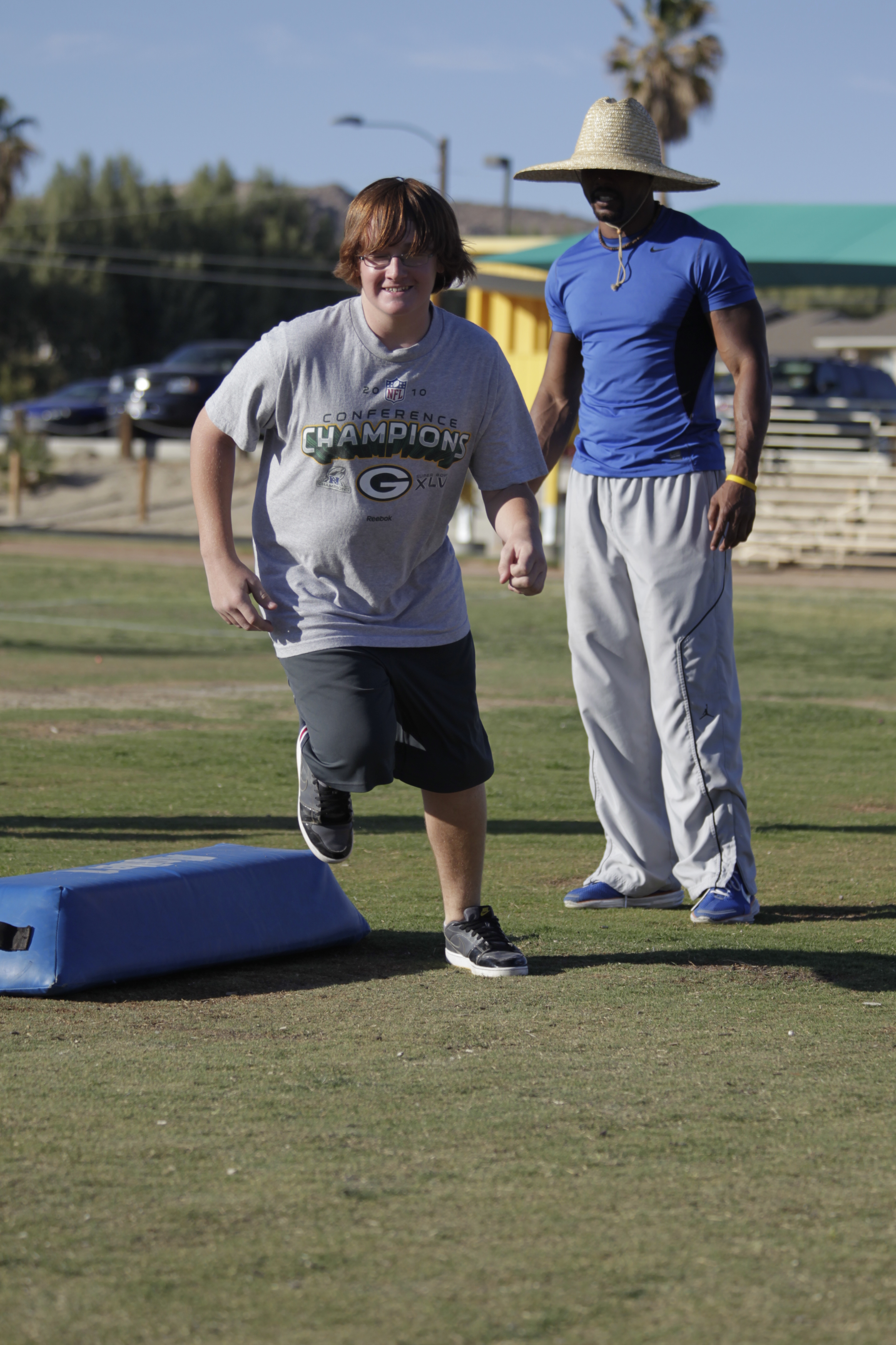 Dallas Cowboy Kareem Larrimore watches as a young participant runs an agility drill during a three day football camp April 27, 2011, at Felix Field.